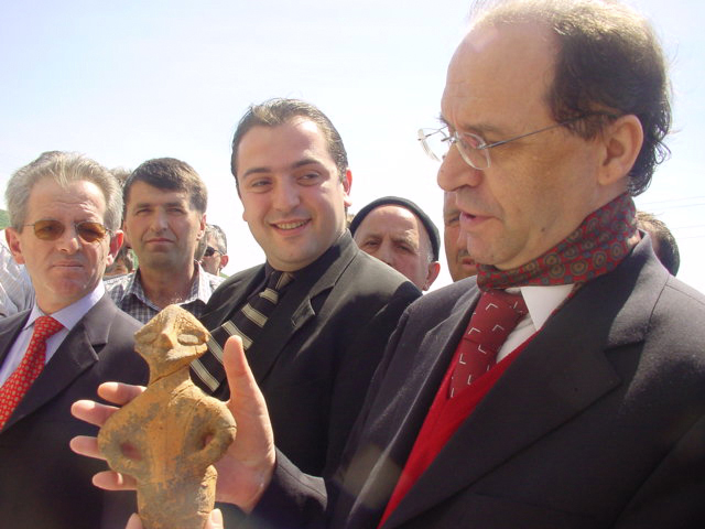 Presidenti i Kosovës Dr. Ibrahim Rugova gjatë vizitës në lokalitetin e gërmimeve arkeologjike në Bardhosh, 2002